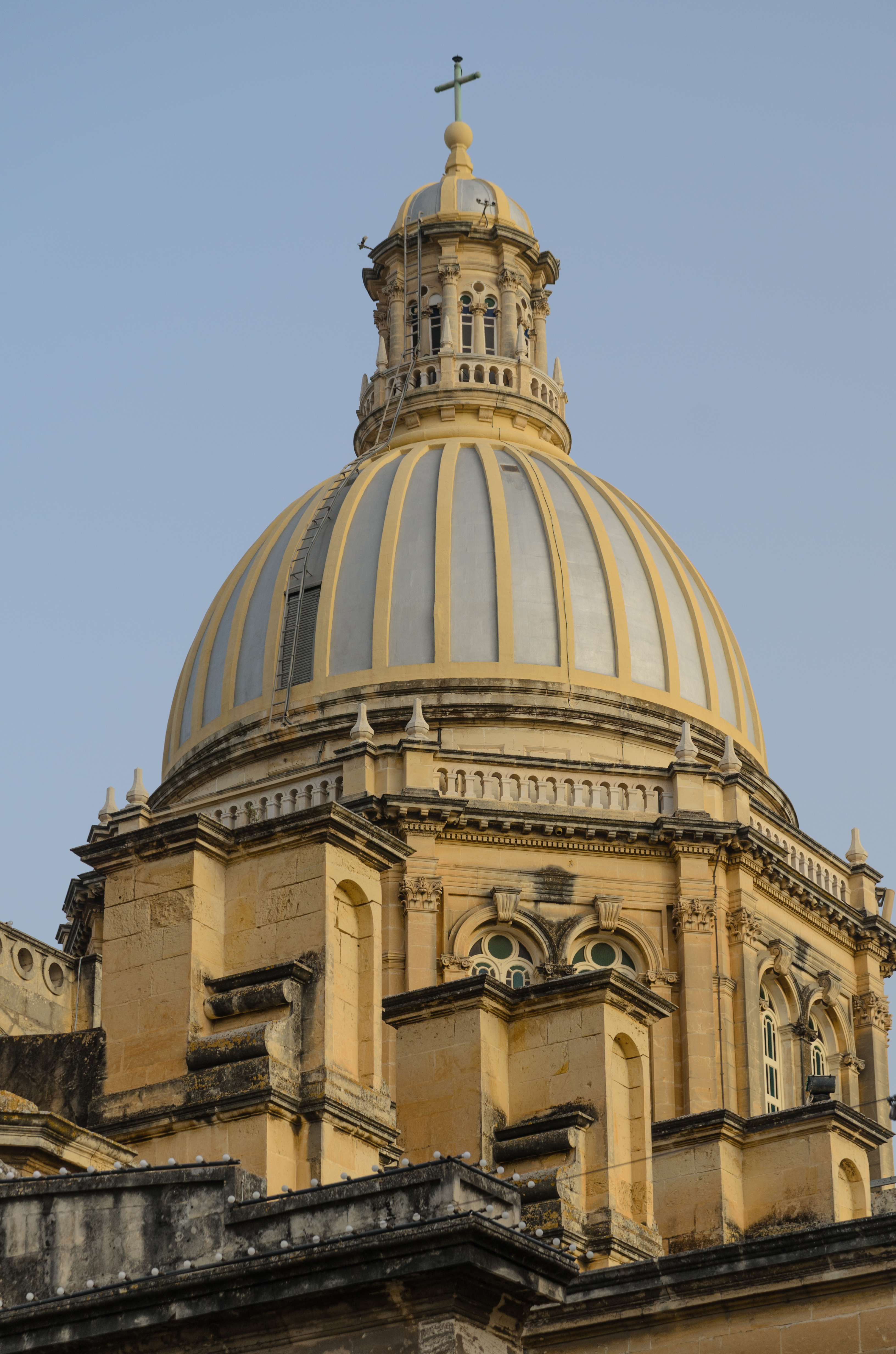 St. Cajetan of Thiene, Parish Church of Ħamrun, Malta